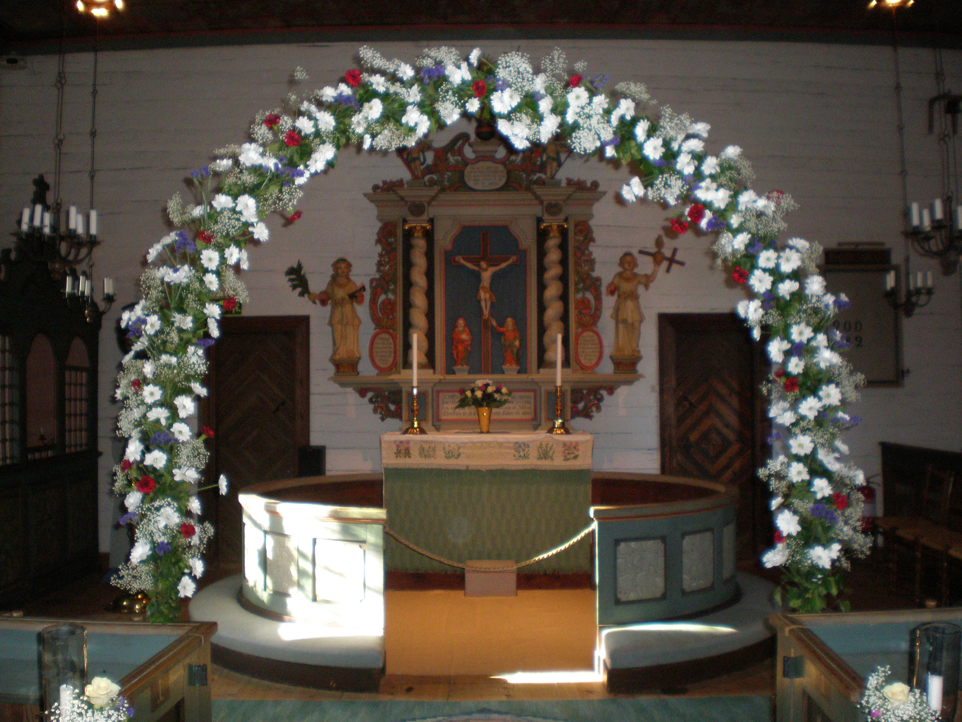 A view from the church's inside